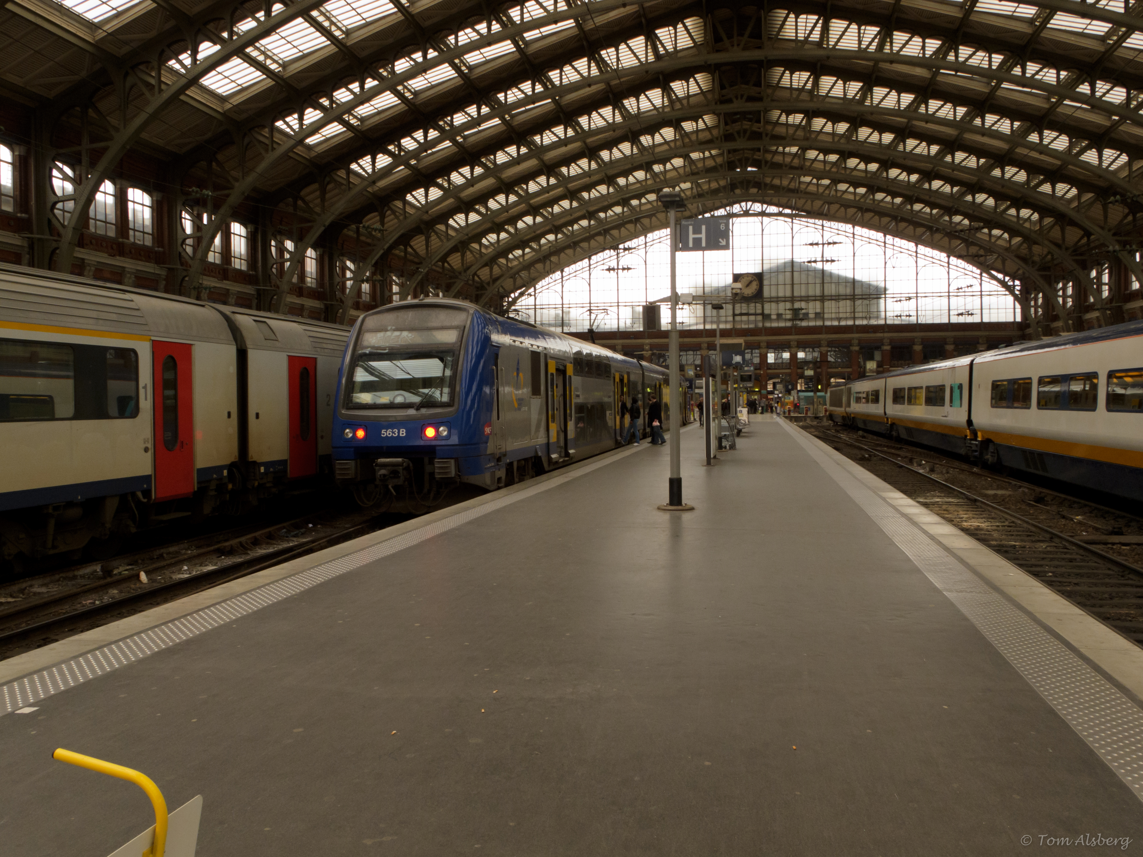 Trains stopping in Gare de Lille Flandres